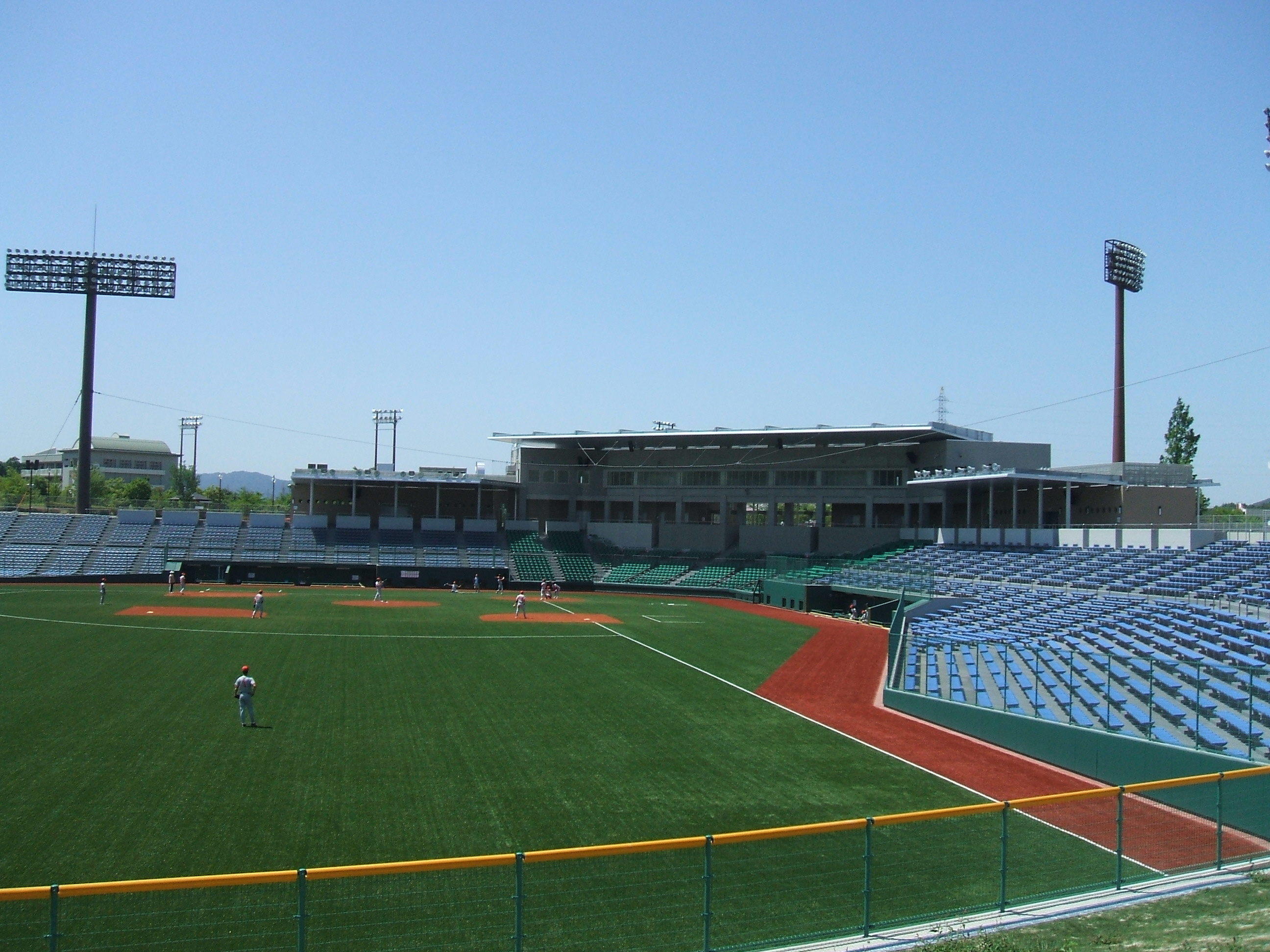 Miyoshi Kinsai Stadium i Miyoshi Hiroshima japan